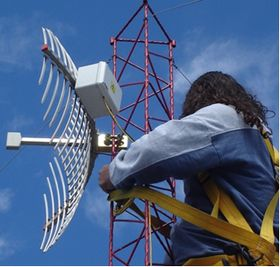 Mounting a microwave relay antenna for a point-to-point data link on a mast. Microwave dishes are often made of a grill of parallel wires like this, to reduce weight and wind load on the dish. Since the bars are vertical, this dish radiates vertically polarized microwaves.